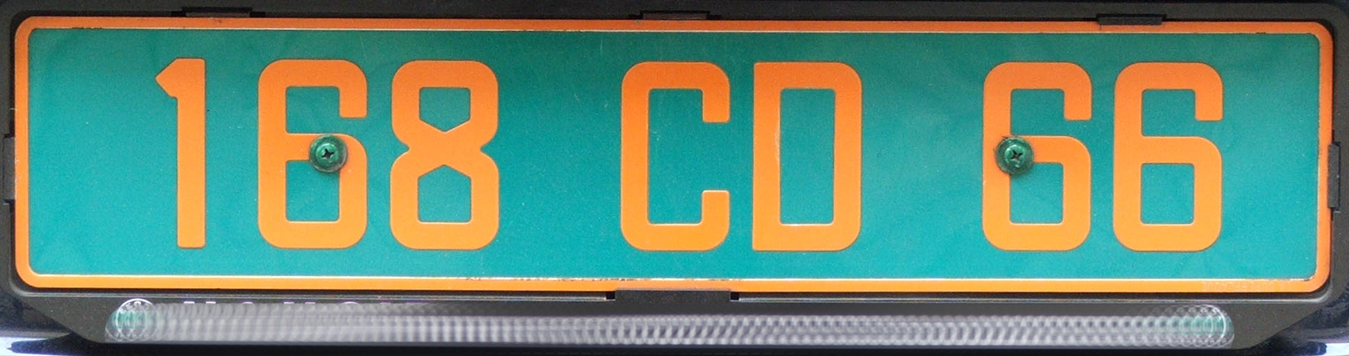 French license plate for diplomates, 168 = Czech Republic - seen in 2008